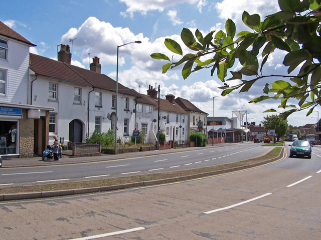 New Street, Ashford This part of the A292 enters Ashford town centre from the north west.